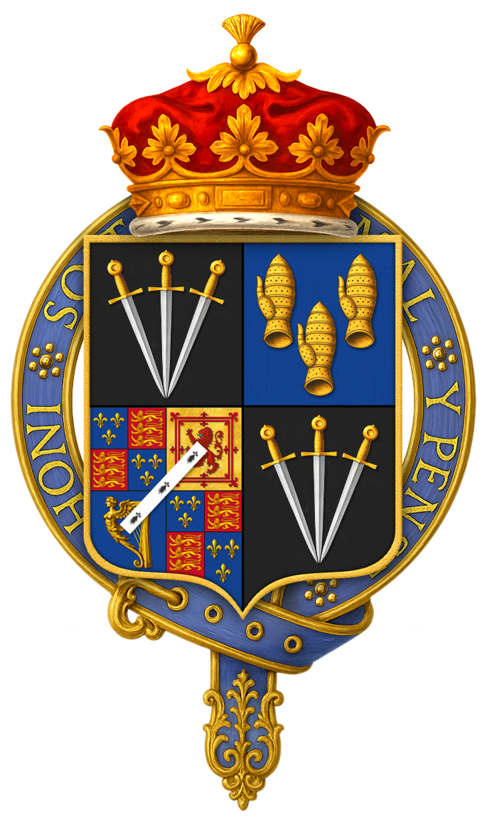 Shield of arms of Harry Powlett, 4th Duke of Cleveland, KG, as displayed on his Order of the Garter stall plate in St. George's Chapel.